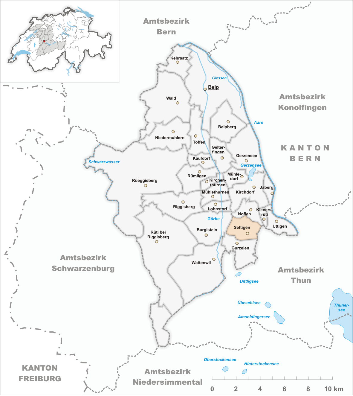 Municipality Seftigen